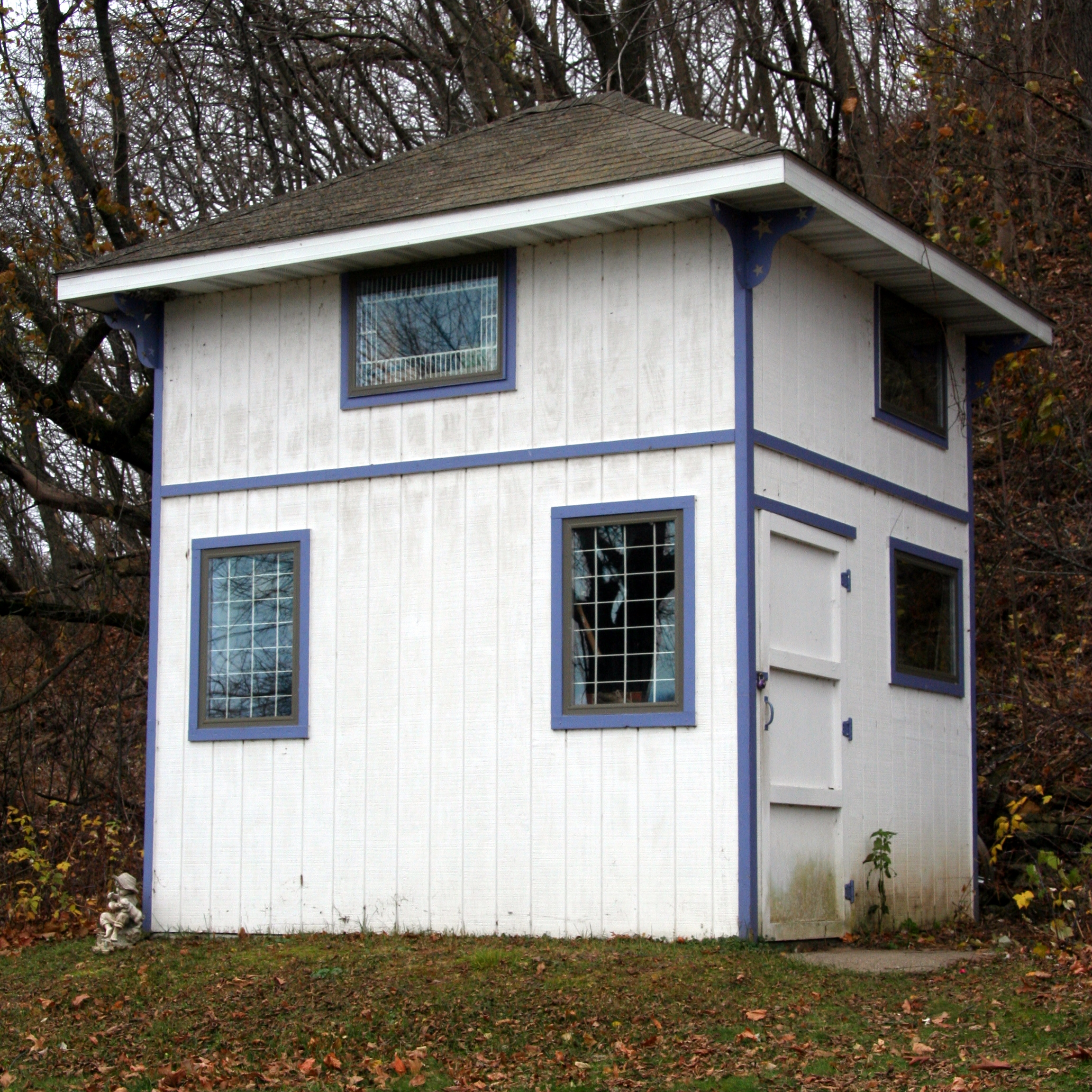 An unusually tall storage shed near Precious Blood Cemetery in LaMoille, Minnesota, United States